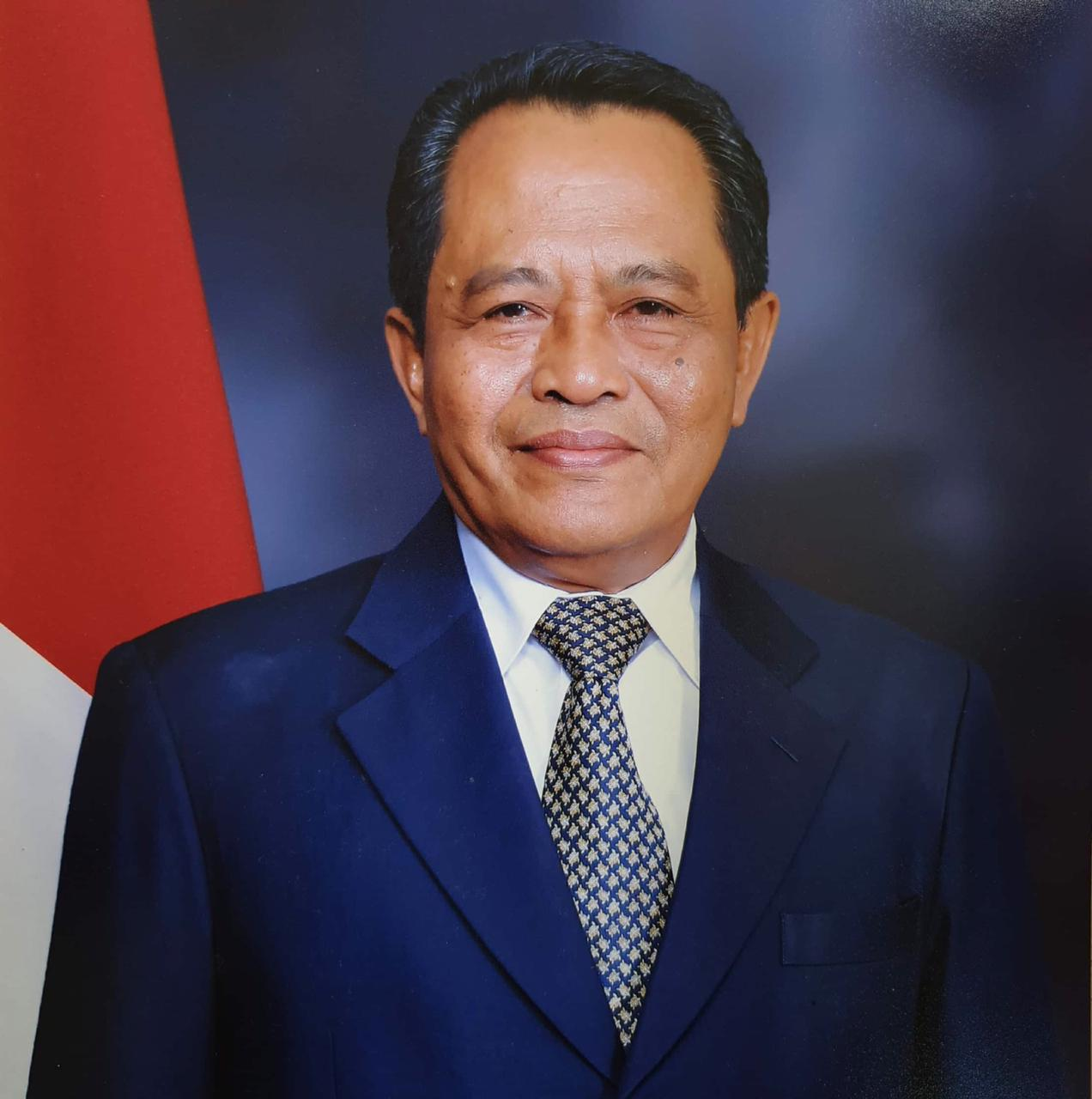 Panitera Mahkamah Agung Republik Indonesia periode 2011-2016